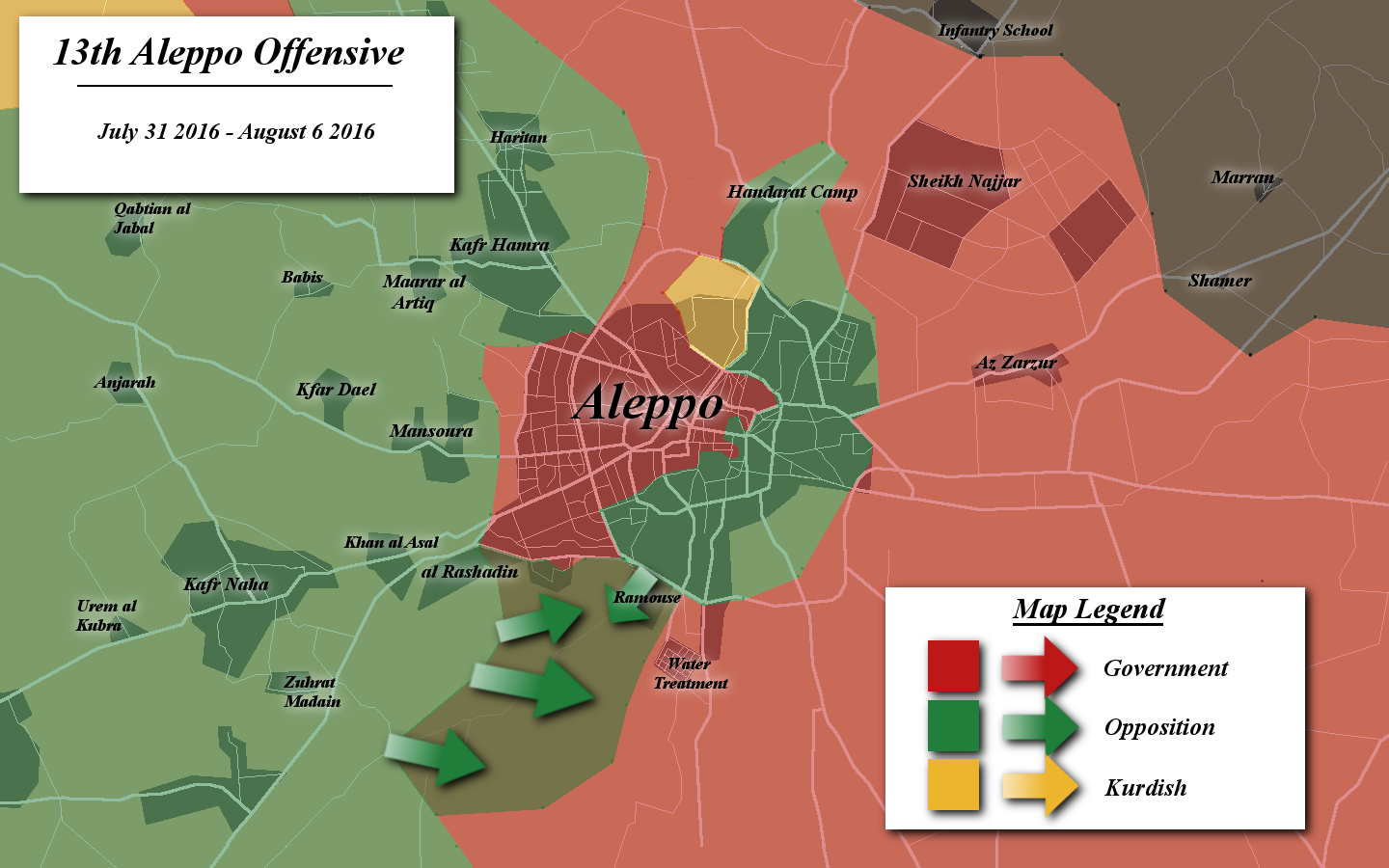 A simplified version of the 13th Aleppo Offensive. Created in gimp 2.8. Influenced by many maps from creators: MrPenguin20, PetoLucem, Edmaps Syria, and so on.